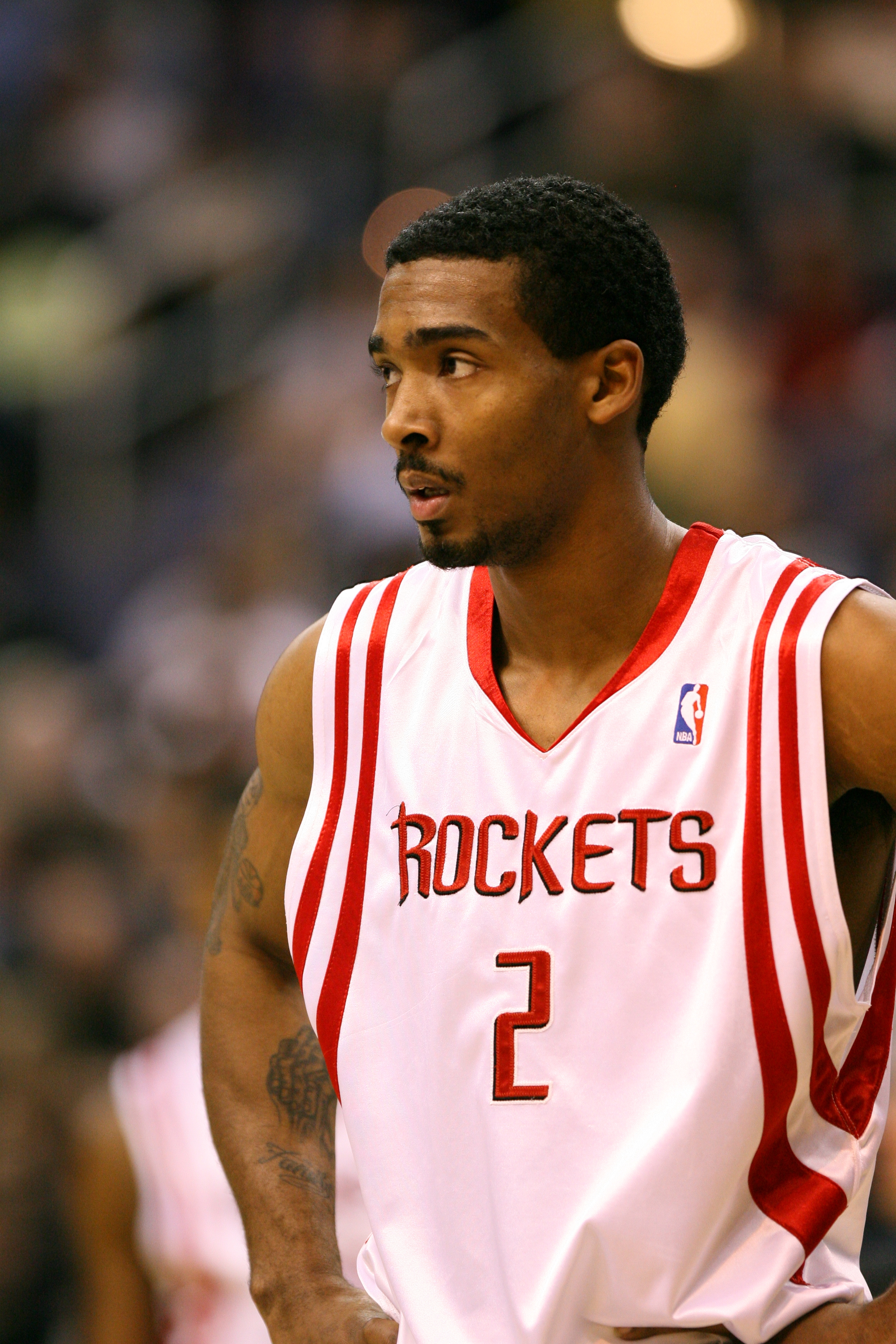 Luther Head of the Houston Rockets of the National Basketball Association (NBA)